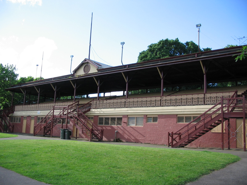 Fitzroy Cricket Ground Grandstand, built en:1888, located at Brunswick Street Oval, Fitzroy North, Victoria, Australia.